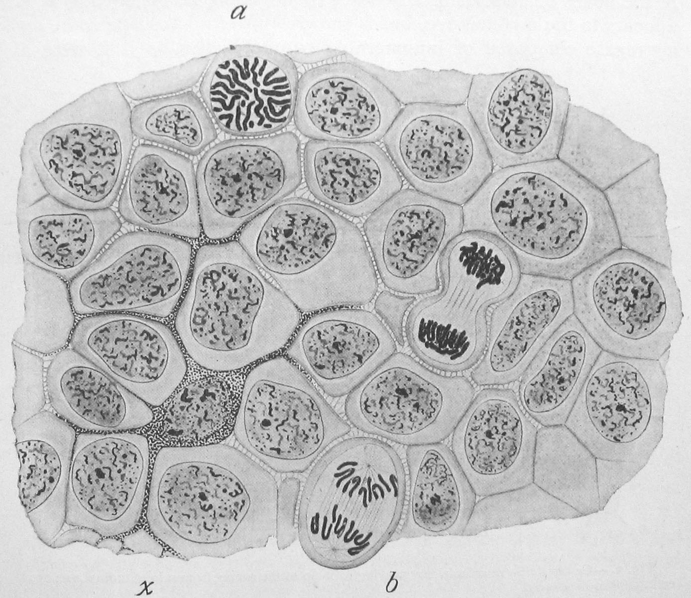 Original figure legend: "A portion of the epidermis of a larval salamander (Amblystoma) as seen in slightly oblique horizontal section, enlarged 550 diameters. Most of the cells are polygonal in form, contain large nuclei, and are connected by delicate protoplasmic bridges. Above x is a branched, dark pigment-cell that has crept up from the deeper layers and lies between the epidermal cells. Three of the latter are undergoing division, the earliest stage (spireme) at a, a later stage (mitotic figure in the anaphase) at b, showing the chromosomes, and a final stage (telophase), showing fission of the cell-body, to the right."